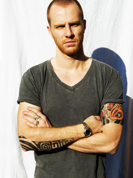 self-portrait